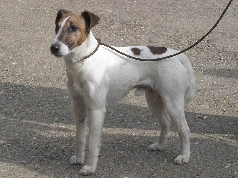 Smooth coated Fox Terrier